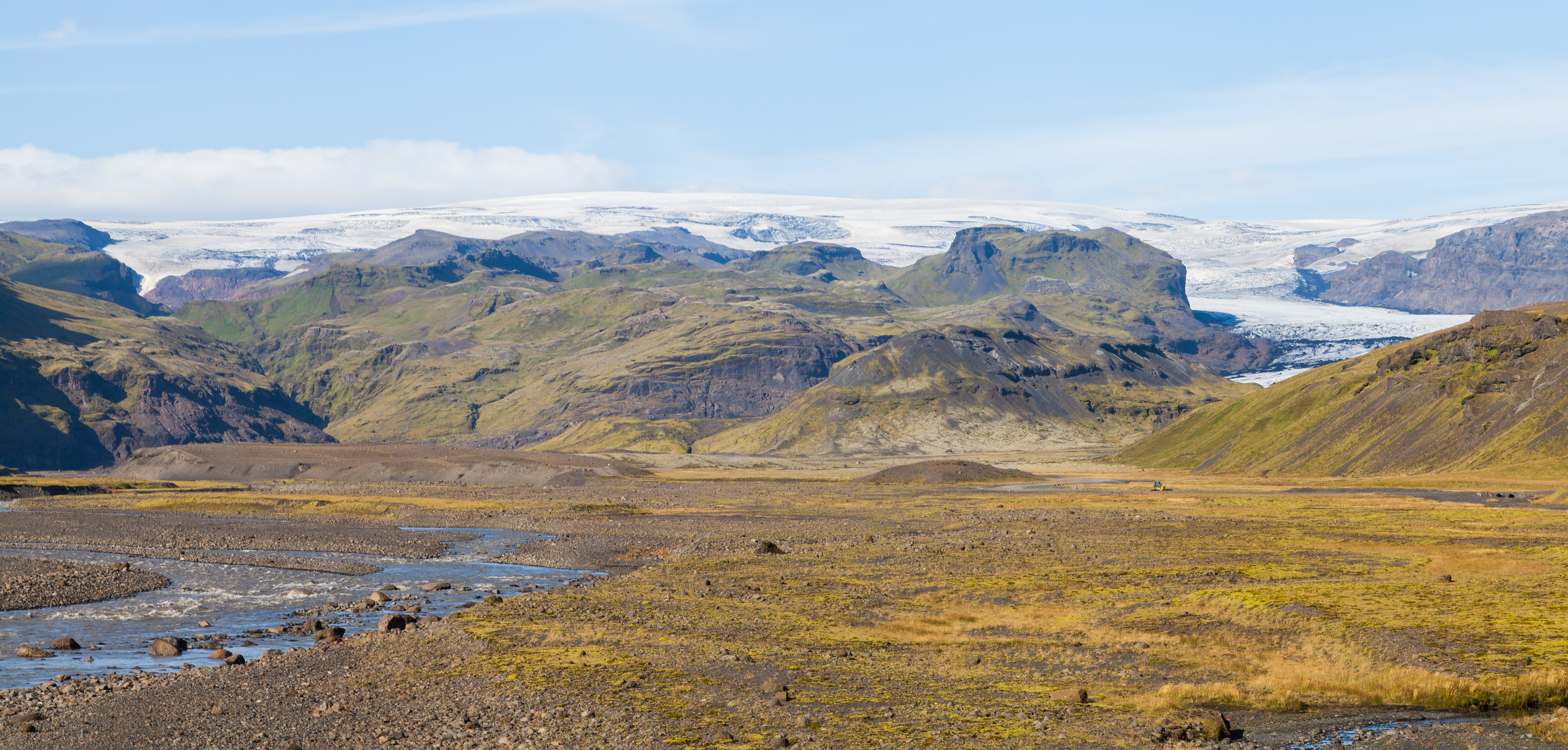 Katla volcano, Suðurland, Iceland